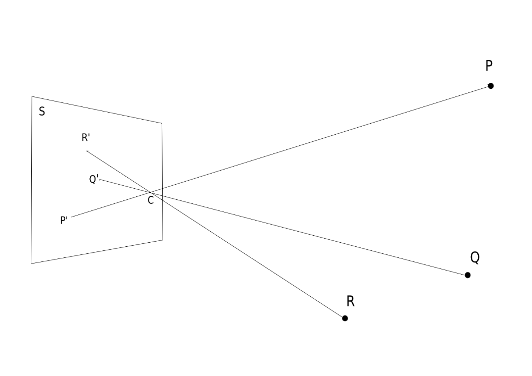 Example of central projection